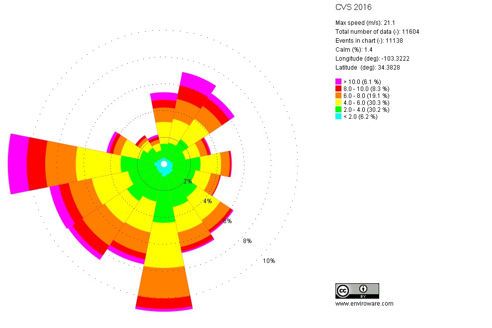 Wind rose showing distribution of wind speed and direction for Cannon Air Force Base for the year 2016.